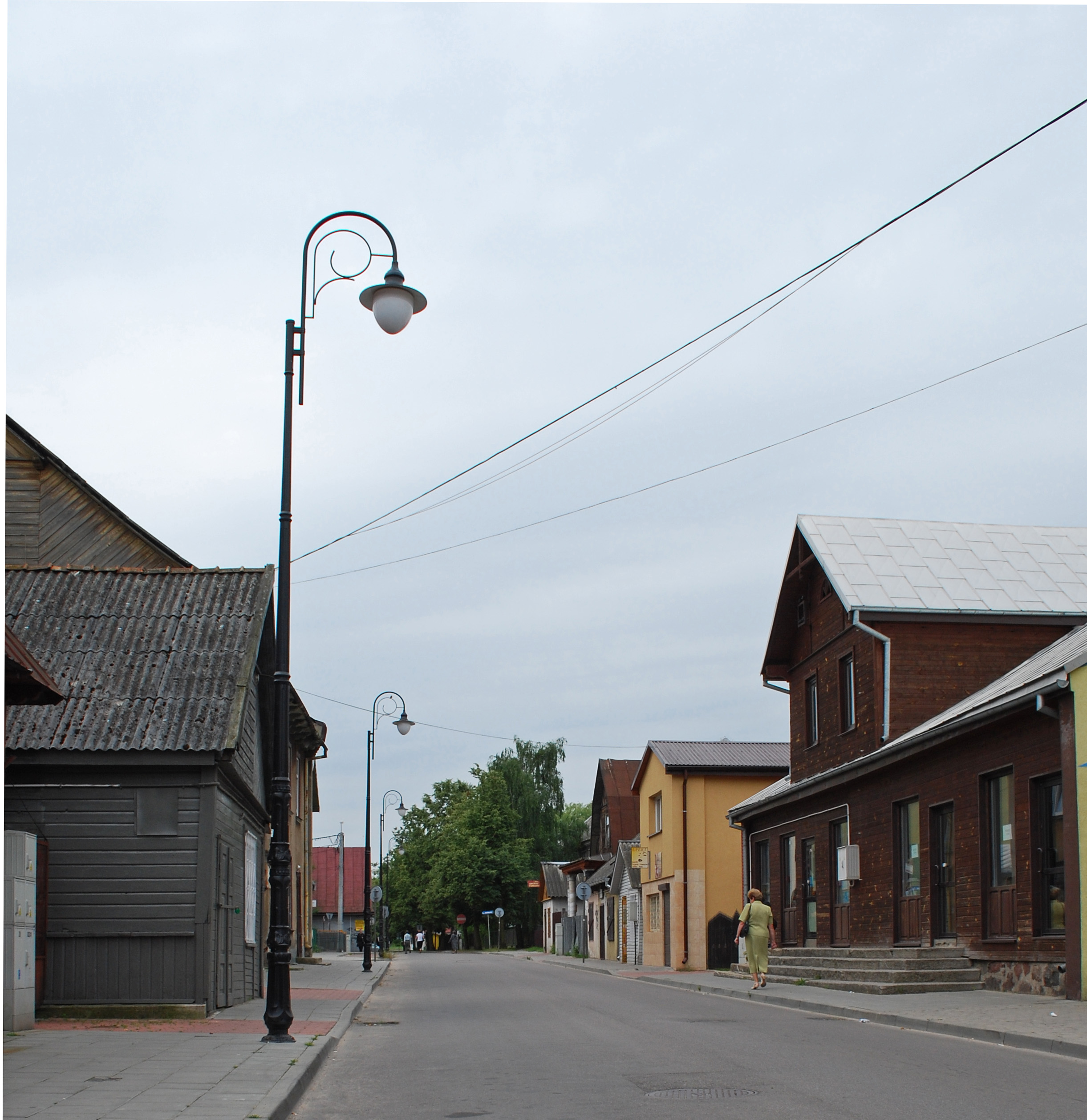 This photo from Podlaskie Voievodeship was taken during Polish Wikiexpedition 2009 set up by Wikimedia Polska Association. The making of this document was supported by Wikimedia Polska. ul. Wierobieja w Hajnówce.